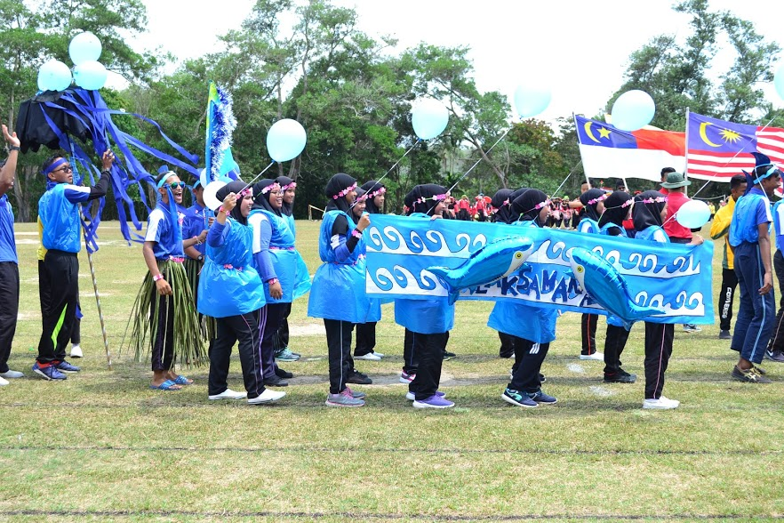 sukan 2018 (4)